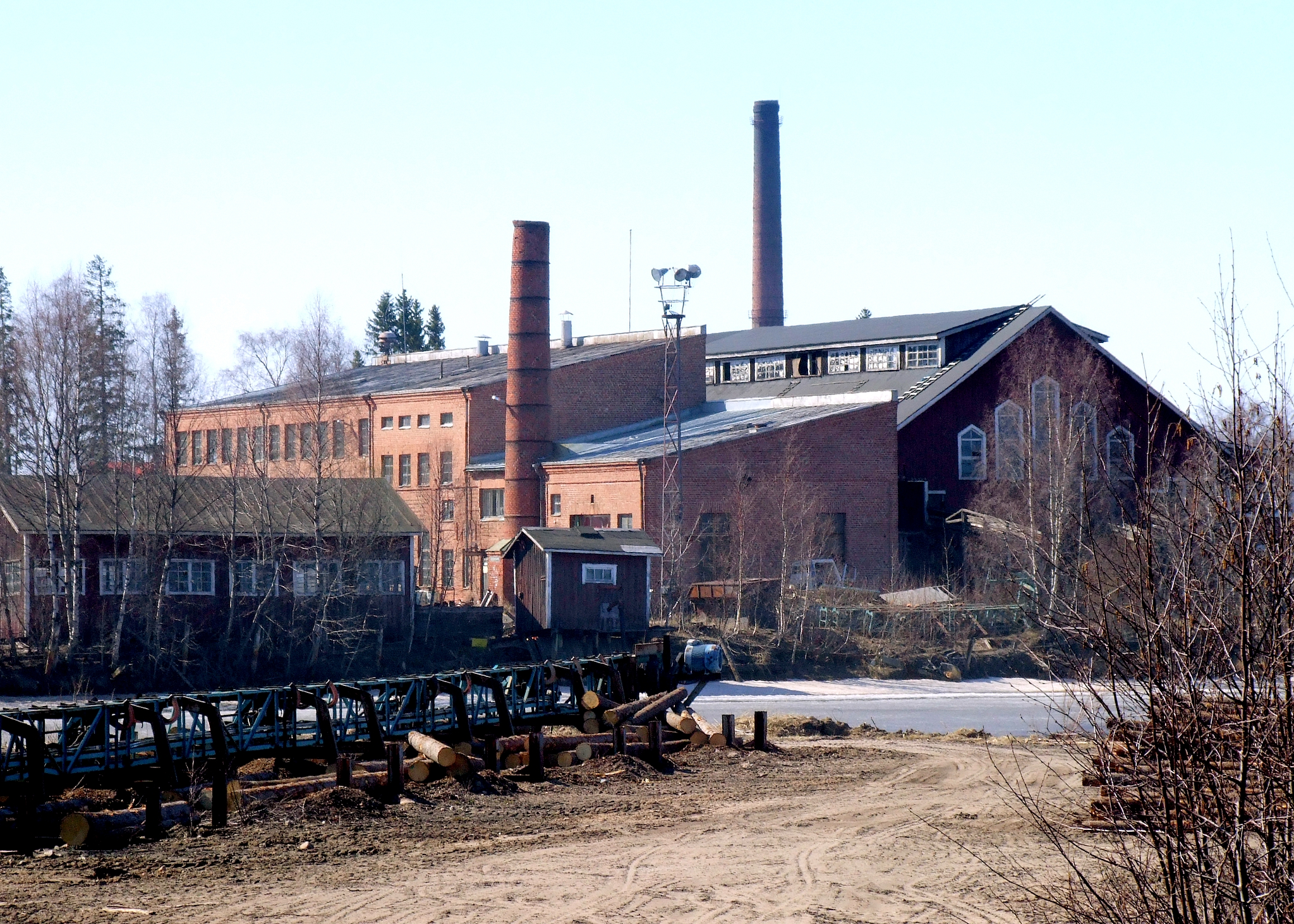 The old sawmill buildings in Martinniemi village in Haukipudas, Finland.